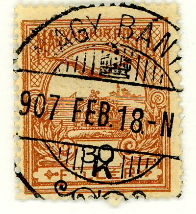 Kingdom of Hungary 30 fillér stamp, issue 1906 (perforated 15) cancelled in 1907 at NÁGY BANYA (Maramures County, Romania)